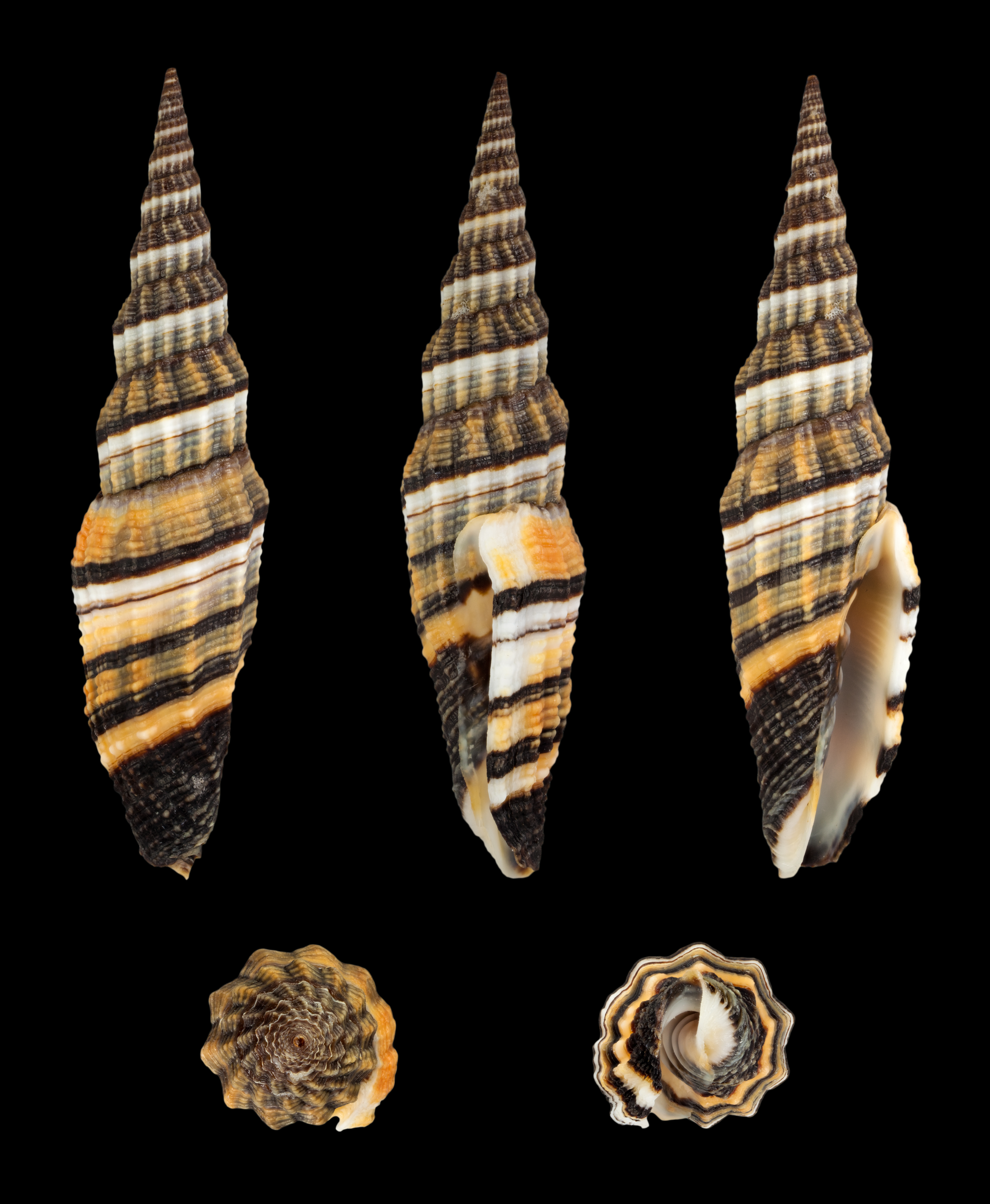 Vexillum citrinum (Gmelin, 1791), Queen Mitre, brown form; Length 7.3 cm; Originating from Madagascar. Shell of own collection, therefore not geocoded.